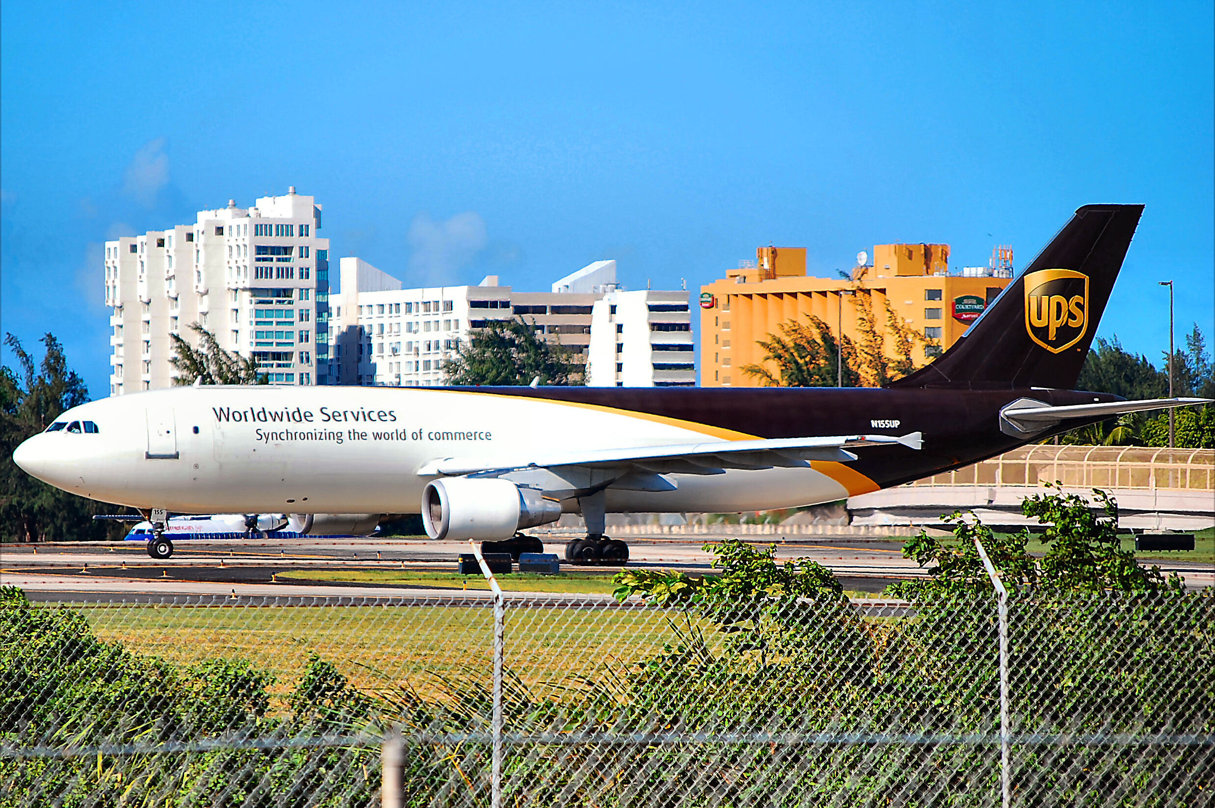 San Juan - Luis Munoz Marin International (SJU/TJSJ) Puerto Rico, October 17, 2009 Photo: Tomas Del Coro Crashed 14-08-2013 at BHM on approach short of the runway